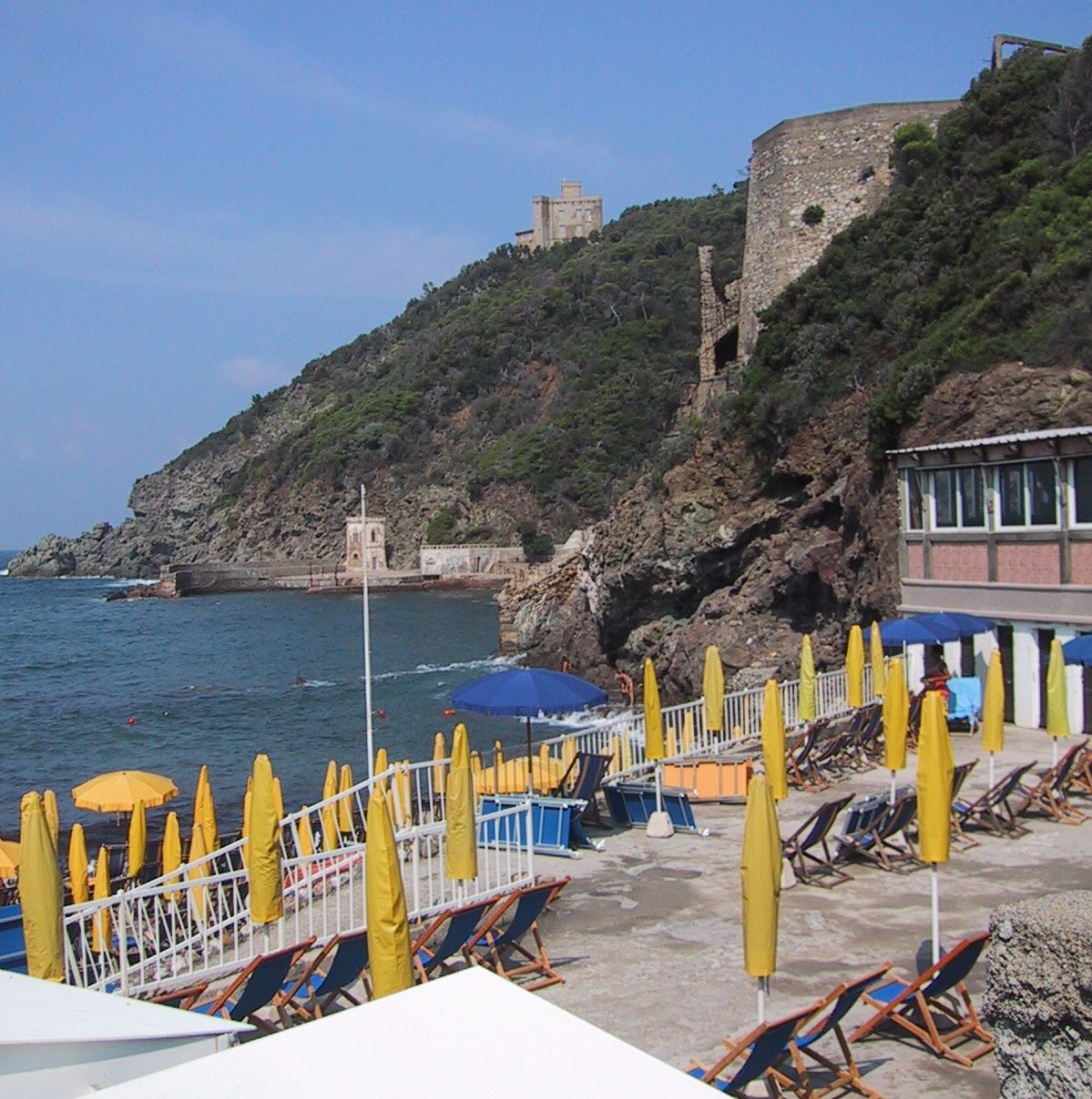 Porticciolo privato del castel Sonnino, Quercianella, Livorno, Tuscany, Italy.